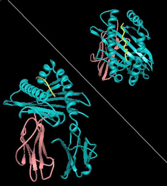 Rendering of HLA-A1 with MAGE-1 bound peptide. Two views, from the side showing B2 microglobulin (rose) and HLA-A1 (alpha chain, cyan). Top-right view is looking down through the binding site toward the plasma membrane. The image is derived from PDB:1W72 that was presented in the work:Hulsmeyer et al. (2005) A major histocompatibility complex-peptide-restricted antibody and t cell receptor molecules recognize their target by distinct binding modes: crystal structure of human leukocyte antigen (HLA)-A1-MAGE-A1 in complex with FAB-HYB3. J.Biol.Chem. 280: 2972-2980. Image rendered with PDB ProteinWorkshop 1.50. Several aspects of the image removed for clarity reasons.